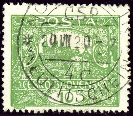 Czechoslovakia 10 h stamp issue 1920, perforated, bilingual cancelled NOVY JICIN - NEUTITSCHEIN 20 VII 20 (Moravia)